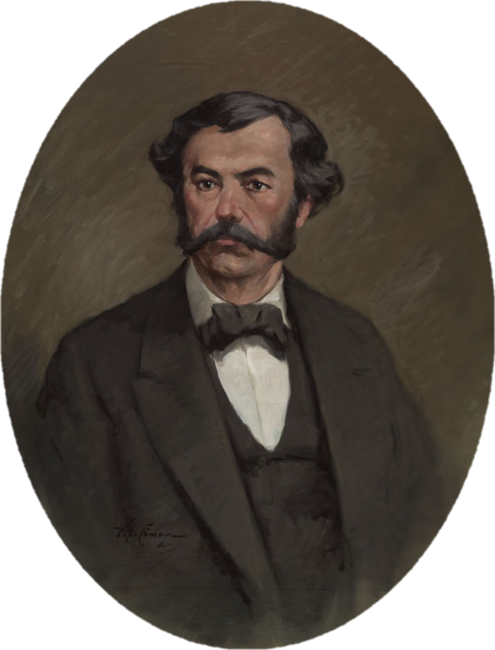 José Feliciano de Castilho Barreto e Noronha (1810-1879), Portuguese journalist, writer, and lawyer.